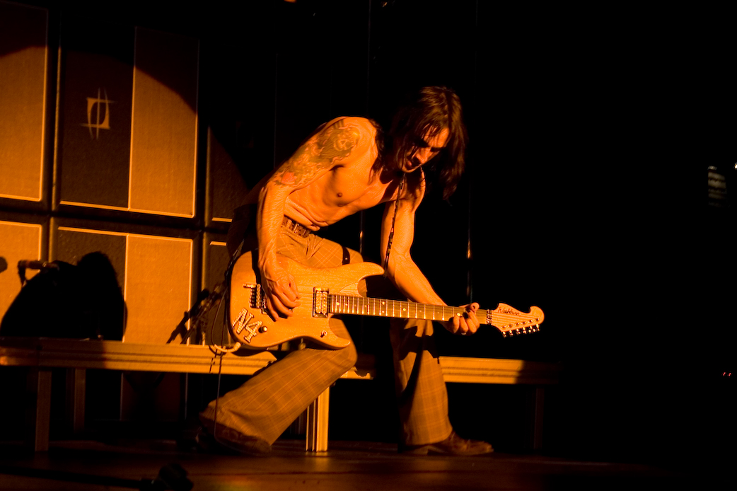 NUNO